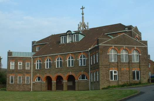 Photo of St Lukes Church in Leagrave